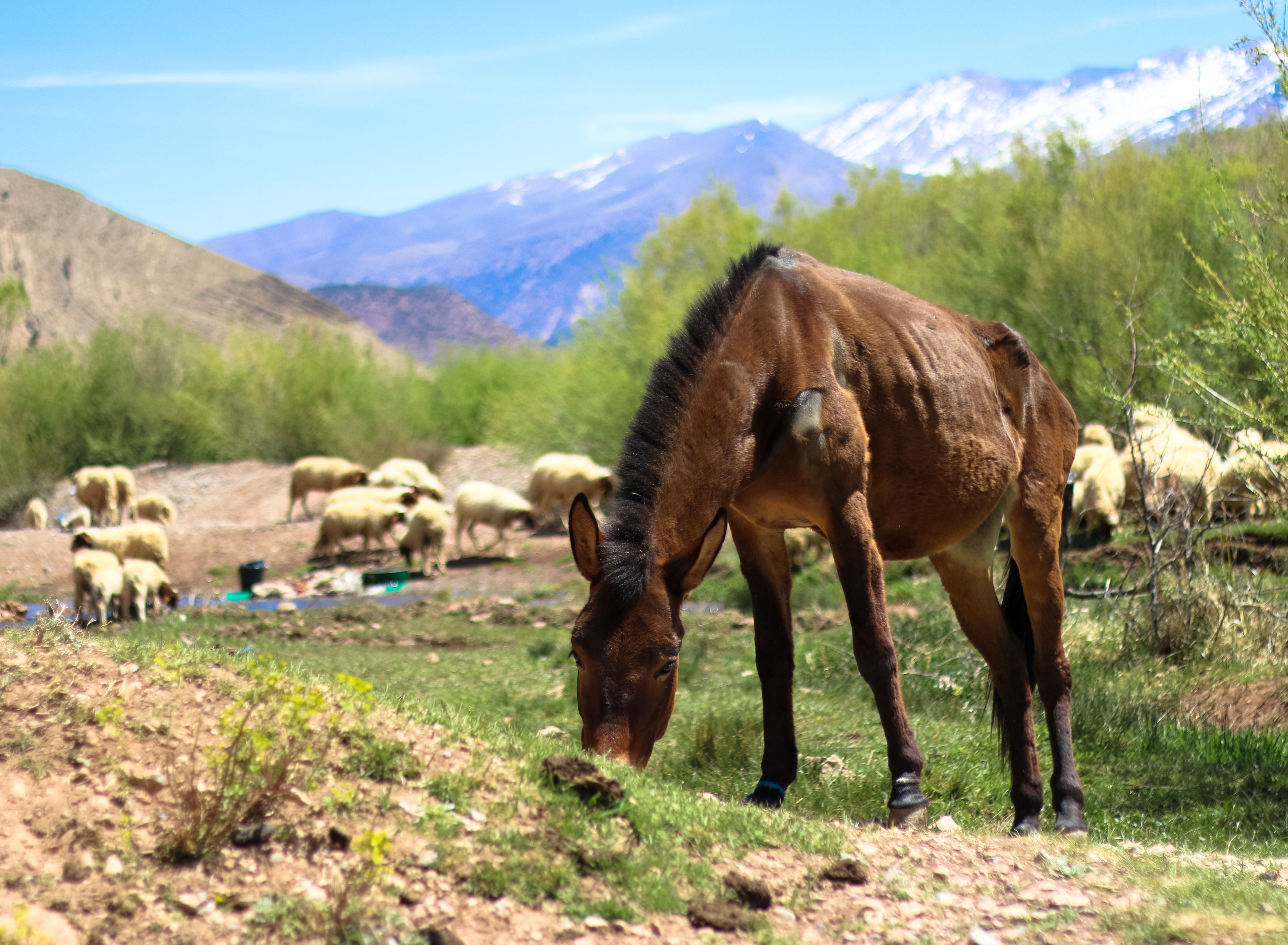 A brown mule eating grass in Ait Bouguemez valley, Morocco